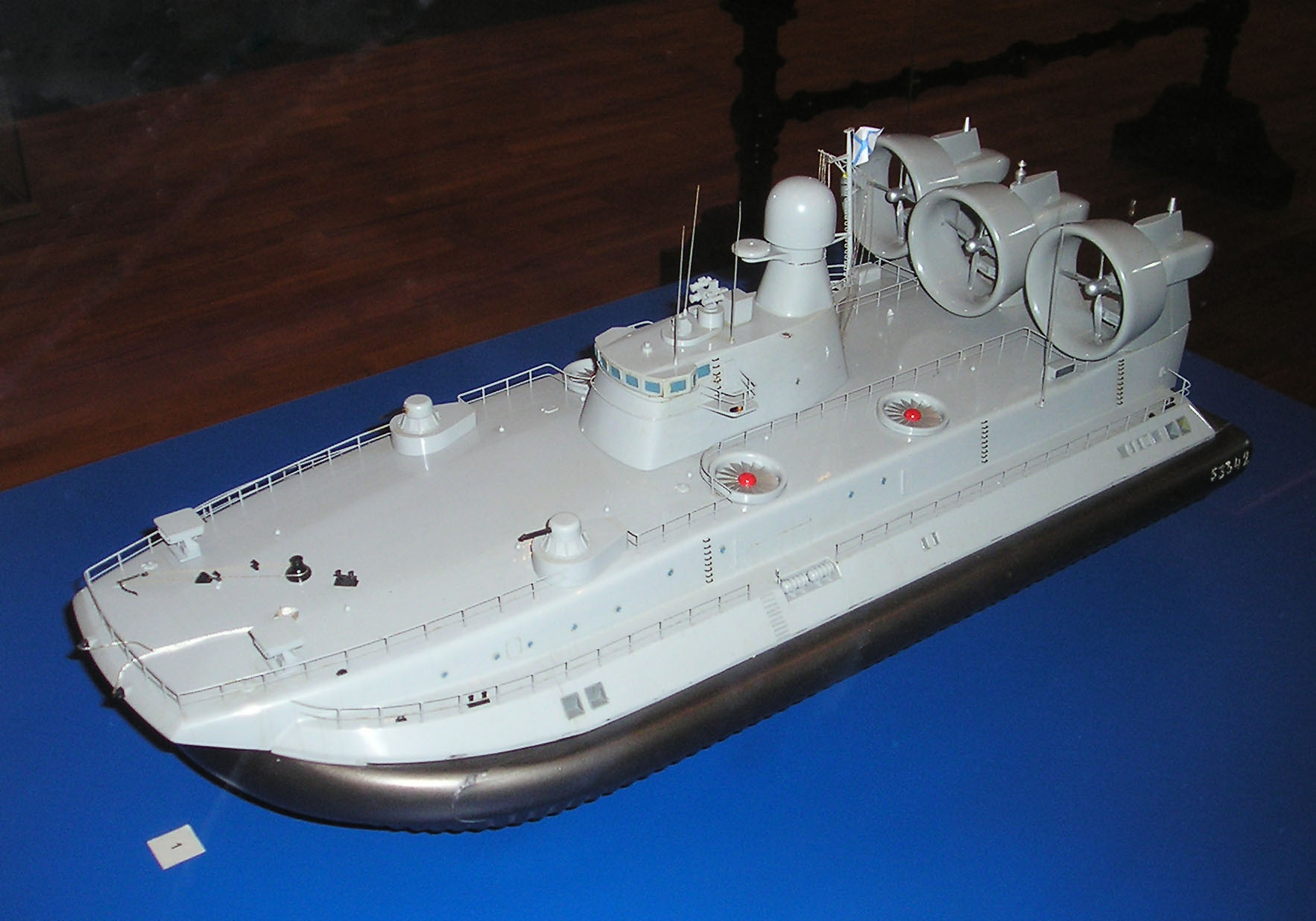 Model of the modern hovercraft. The exhibit of Navy Museum in Saint-Petersburg, Russia.